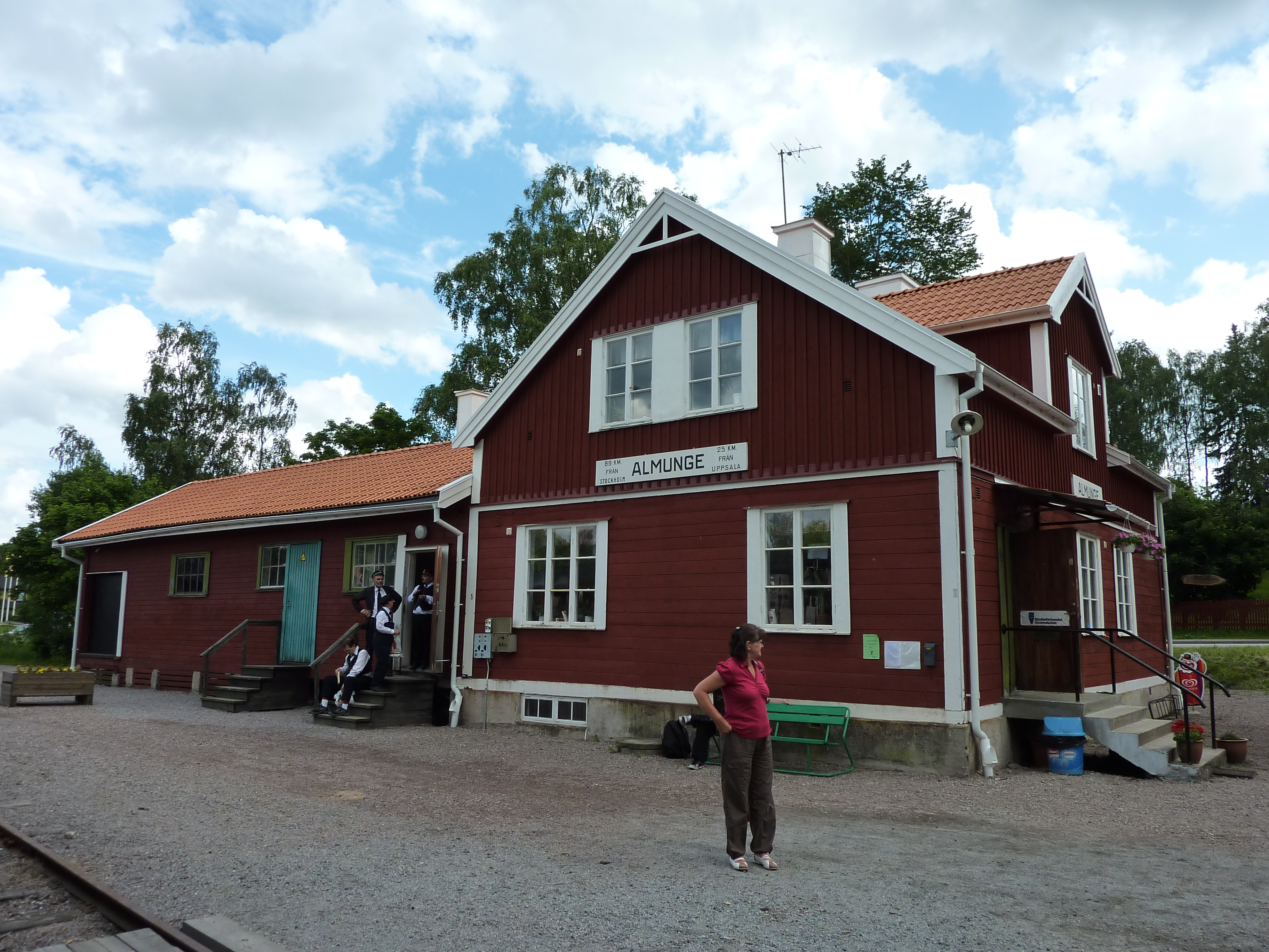 Railway station Almunge at Upsala-Lenna Jernväg in Sweden